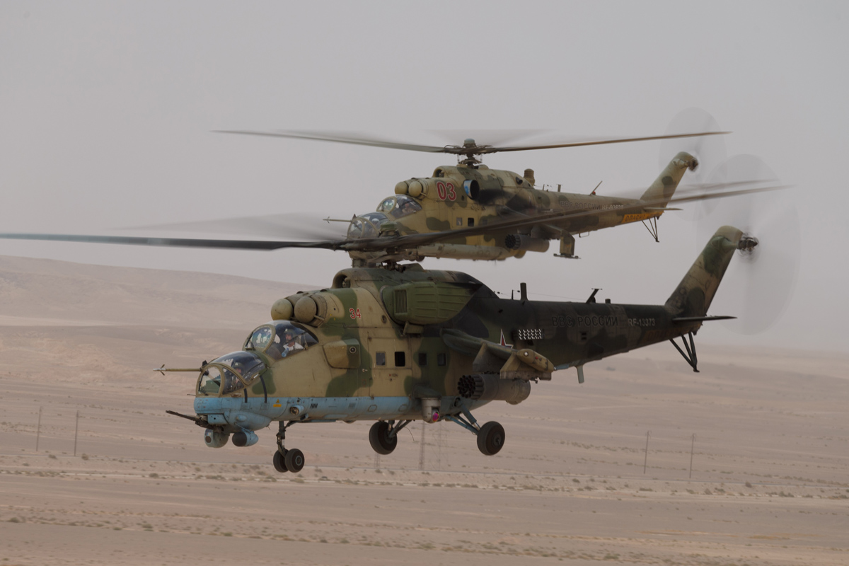 Работа представителей иностранных СМИ в Дейр-эз-Зоре САР